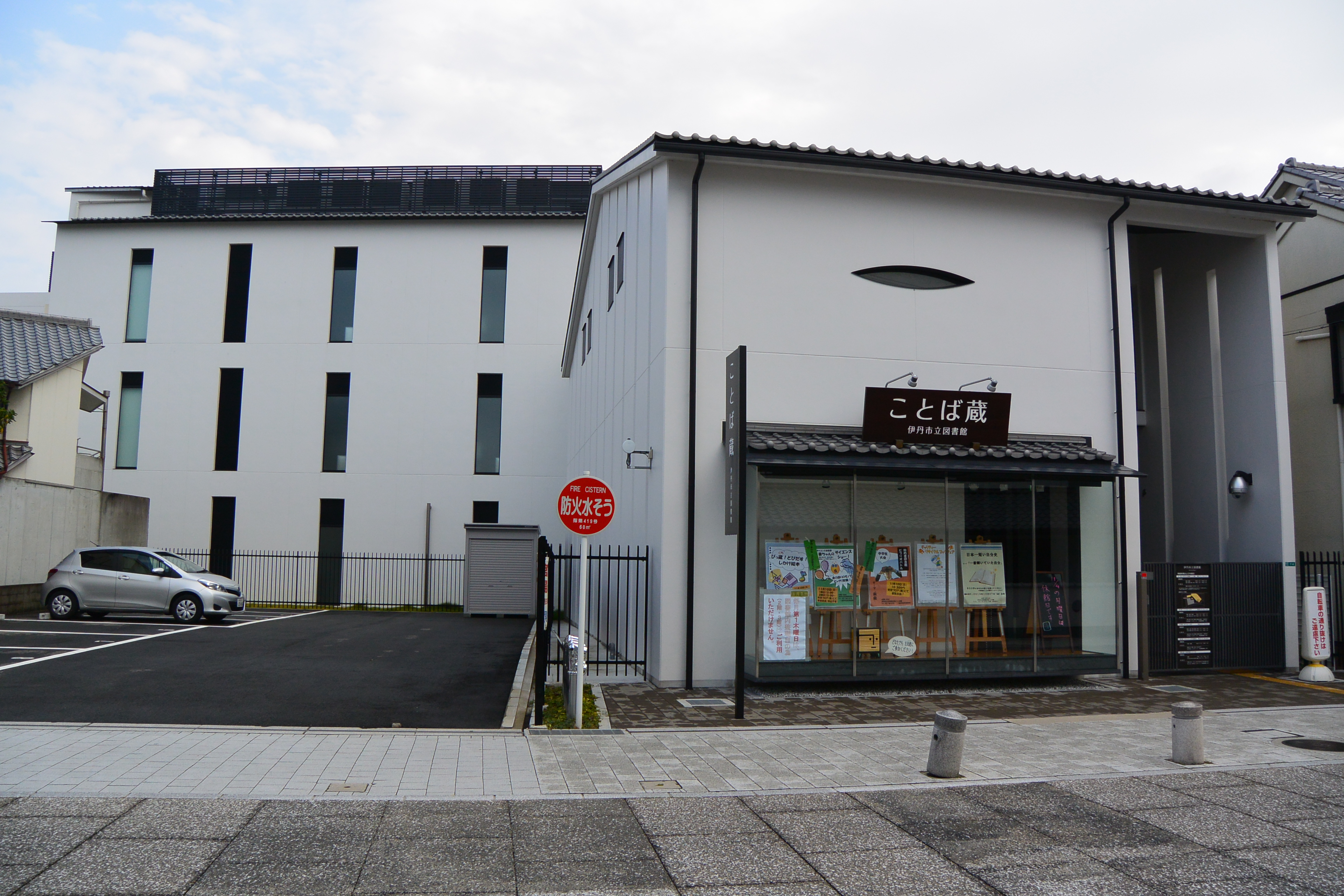 Itami City library, Hyogo Japan